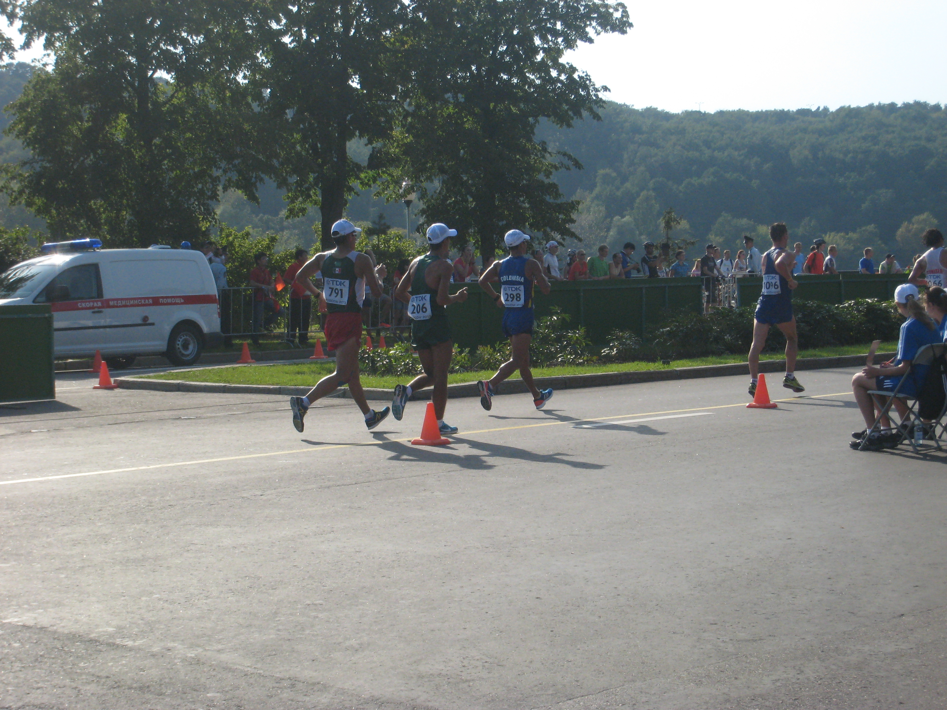 2013 IAAF World Champiomships in Moscow. 20 km walk men. Isaac Palma (MEX), Ivan Losev (UKR), Eider Arevalo (COL), Caio Bonfim (BRA)